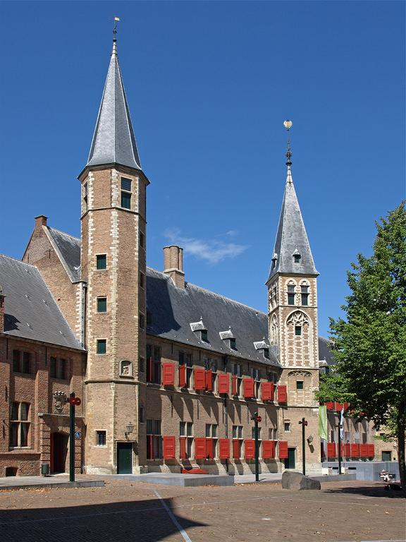 Middelburg (Netherlands), photo 2008